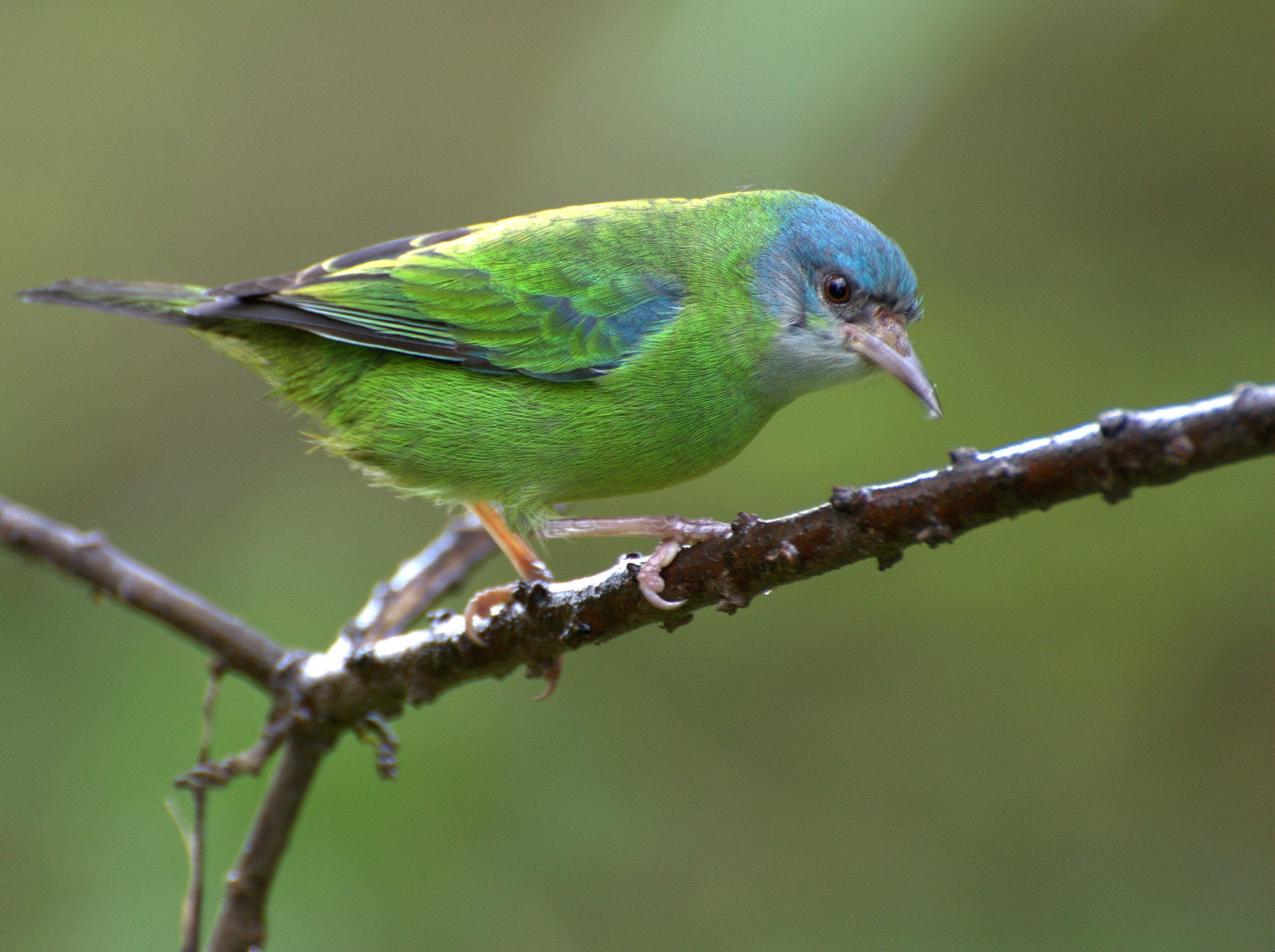 Female Blue Dacnis or Turquoise Honeycreeper (Dacnis cayana). No quintal da casa da minha sogra na cidade de Registro-SP